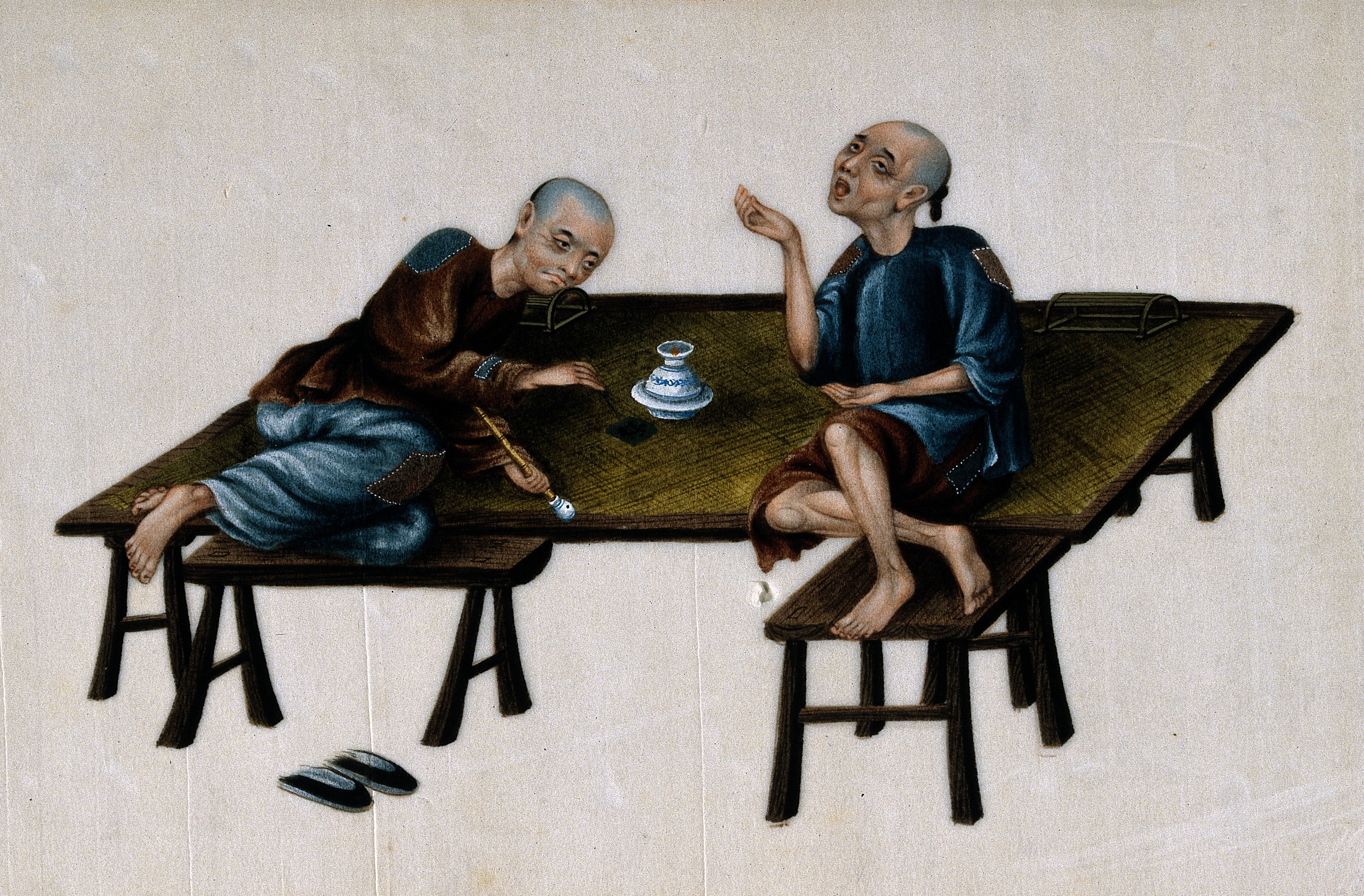 Two poor Chinese opium smokers. Gouache painting on rice-paper, 19th century. Iconographic Collections Keywords: Opium